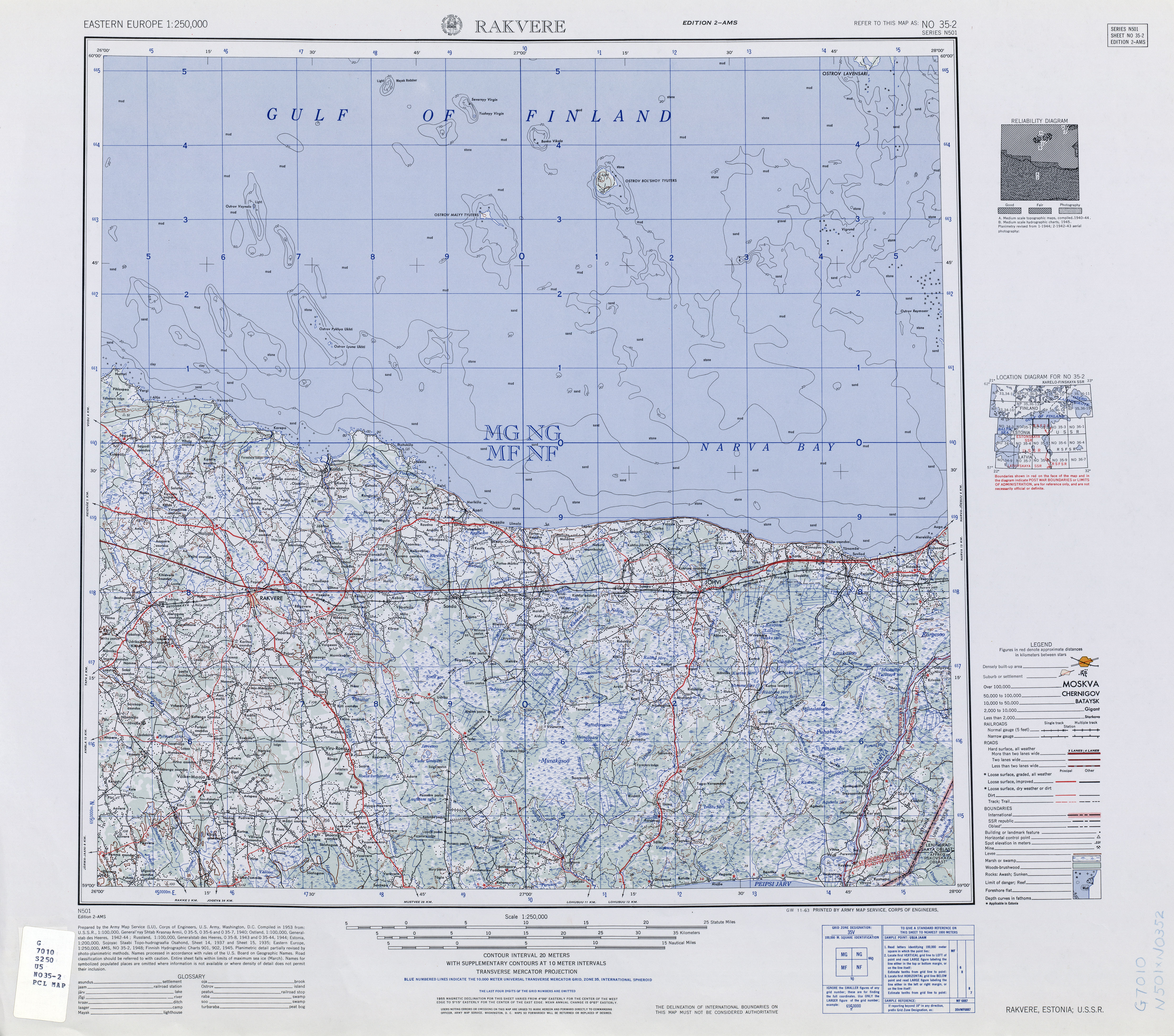 List from Eastern Europe AMS Topographic Maps. Series N501, U.S. Army Map Service, 1954